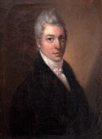 Portrait of Francis Vyvyan Jago Arundell (1780–1846), English cleric, antiquarian and traveller.